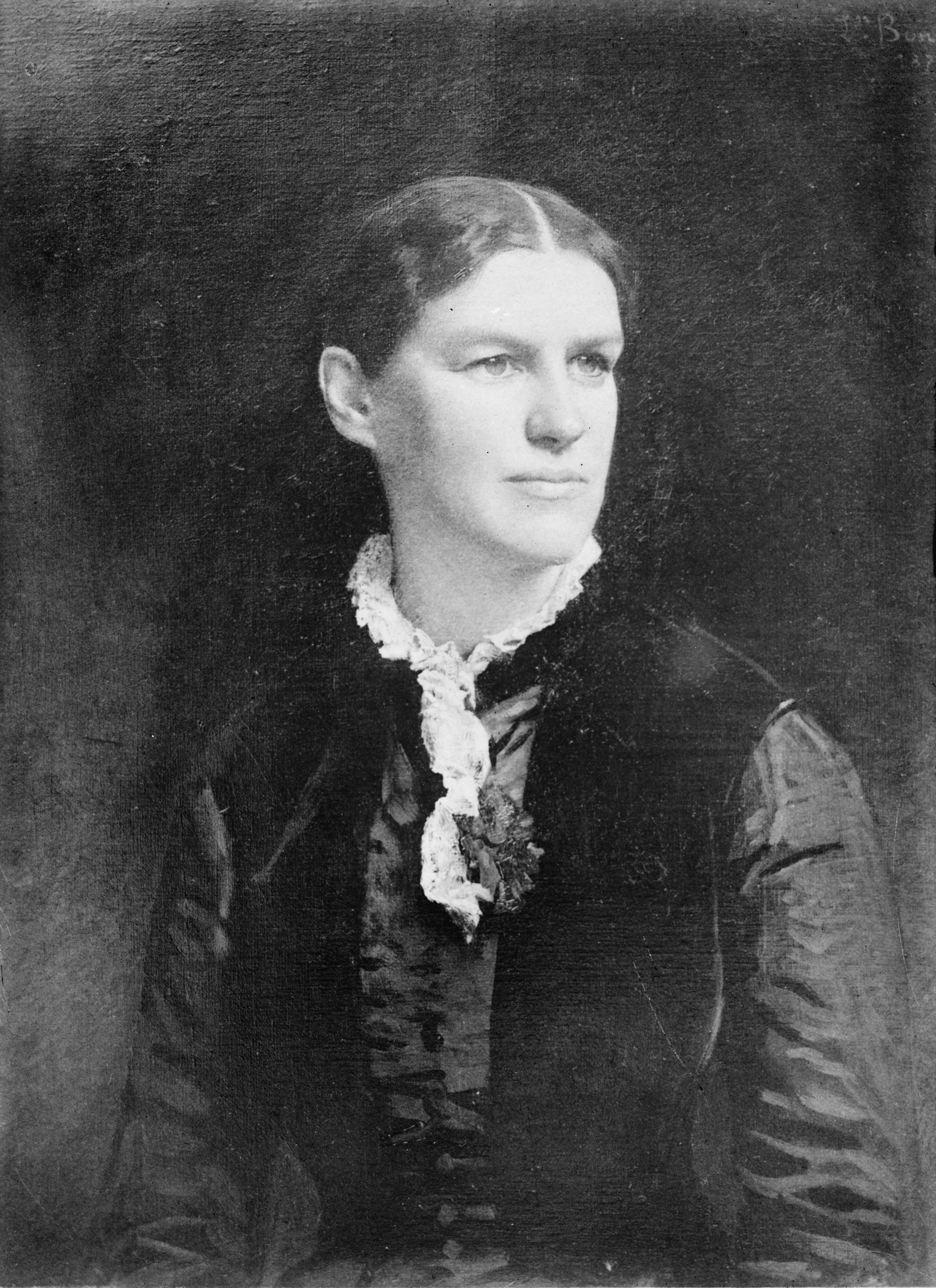 Reproduction of a painting by Léon-Joseph-Florentin Bonnat of Louisa Lee Schuyler